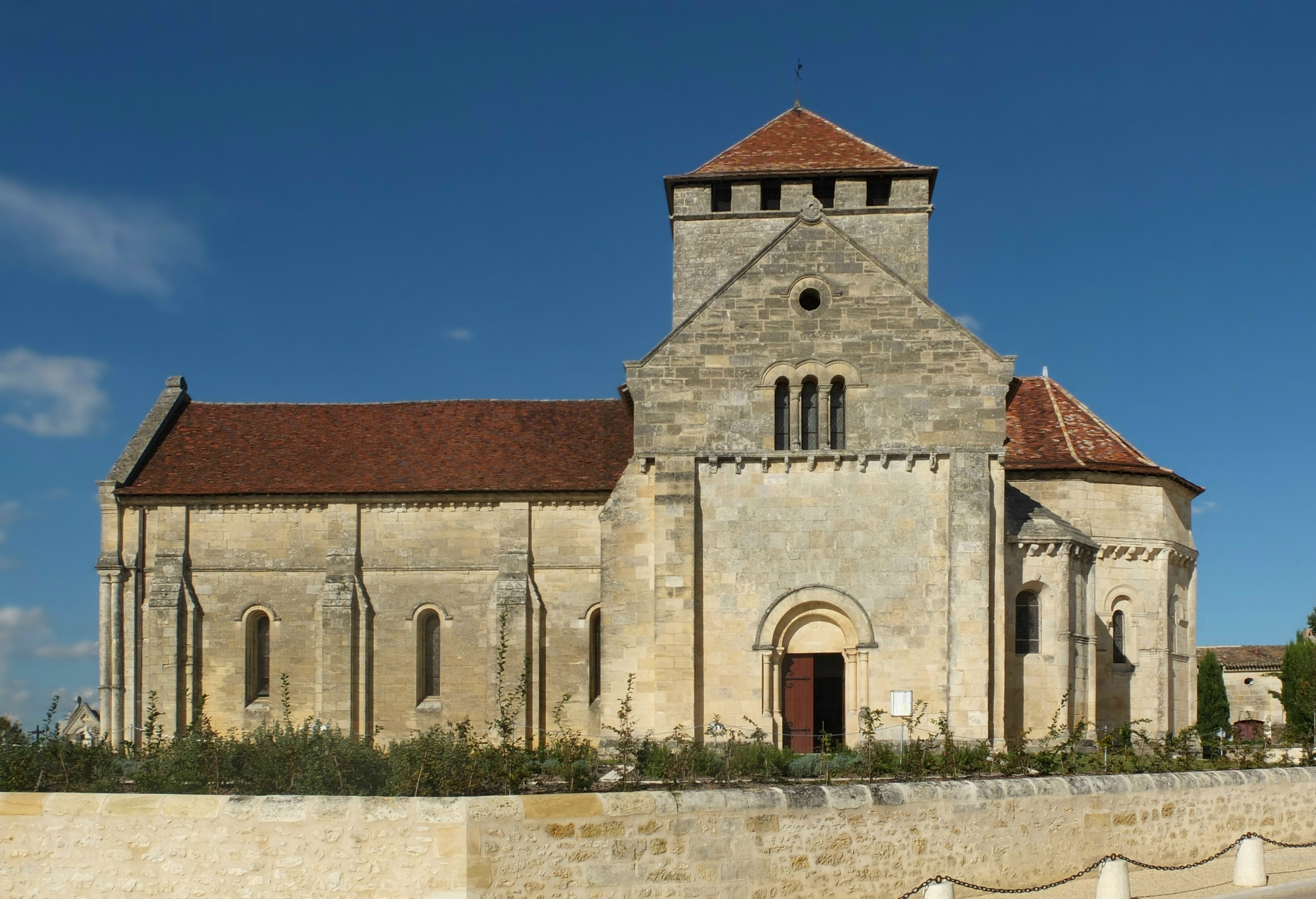 Église Saint-Martin de Montagne, France (view South)